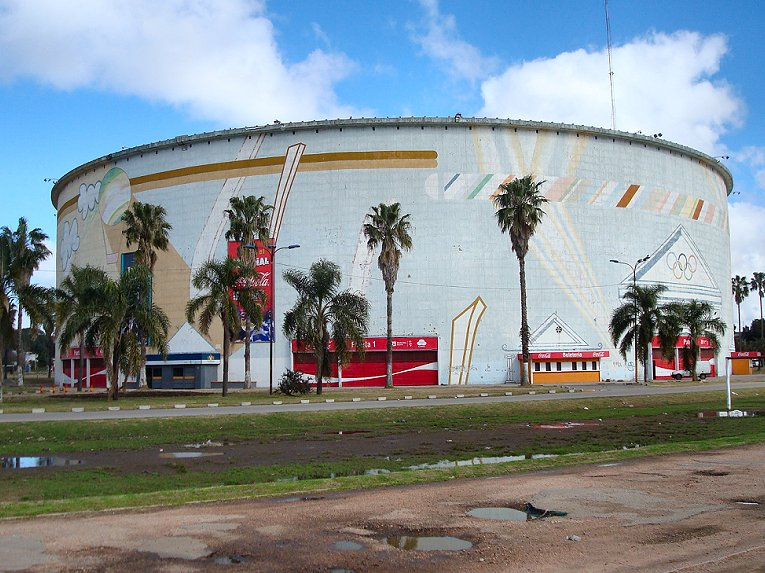 The Cilindro Municipal as seen from Entrance #1.